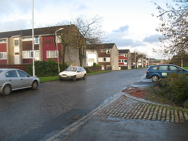 Pine Road, Abronhill Typical new town architecture and planning in Cumbernauld - a maze of cul de sacs around a central shopping area.